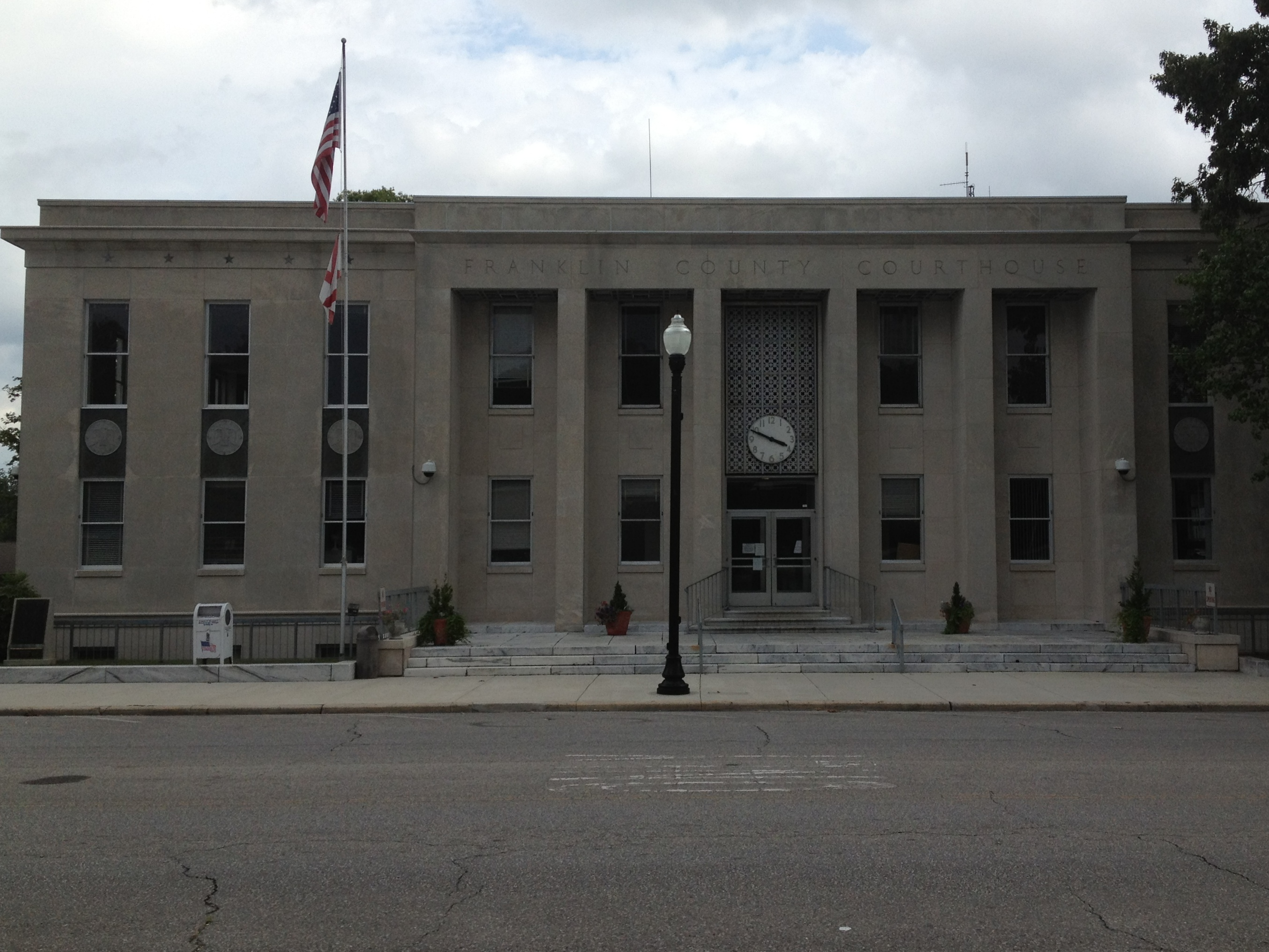 Franklin County Courthouse in Russelville, Alabama